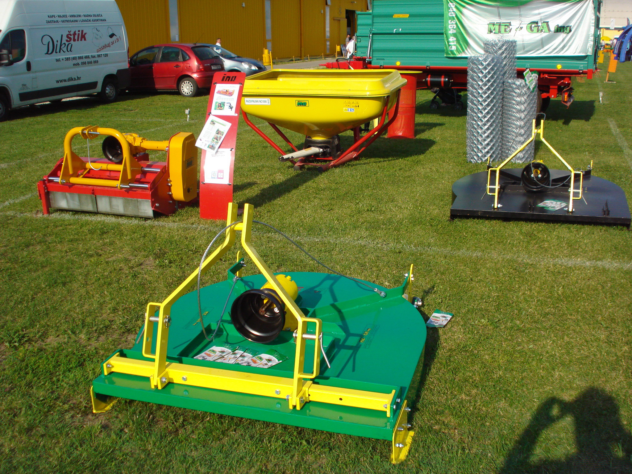 MESAP 2013. trade fair in Nedelišće, Medjimurje County, Croatia - agricultural machines and equipment